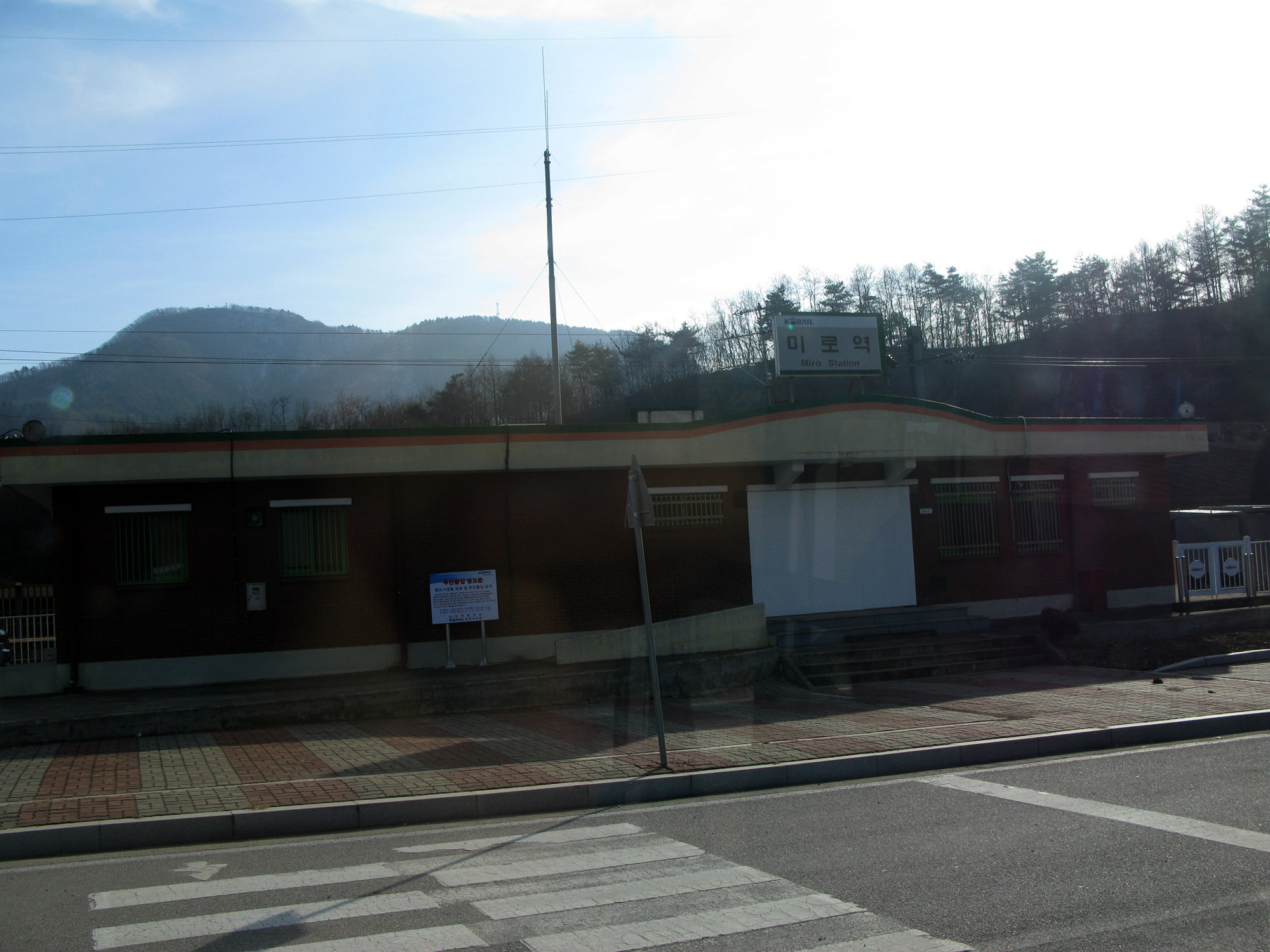 영동선 미로역